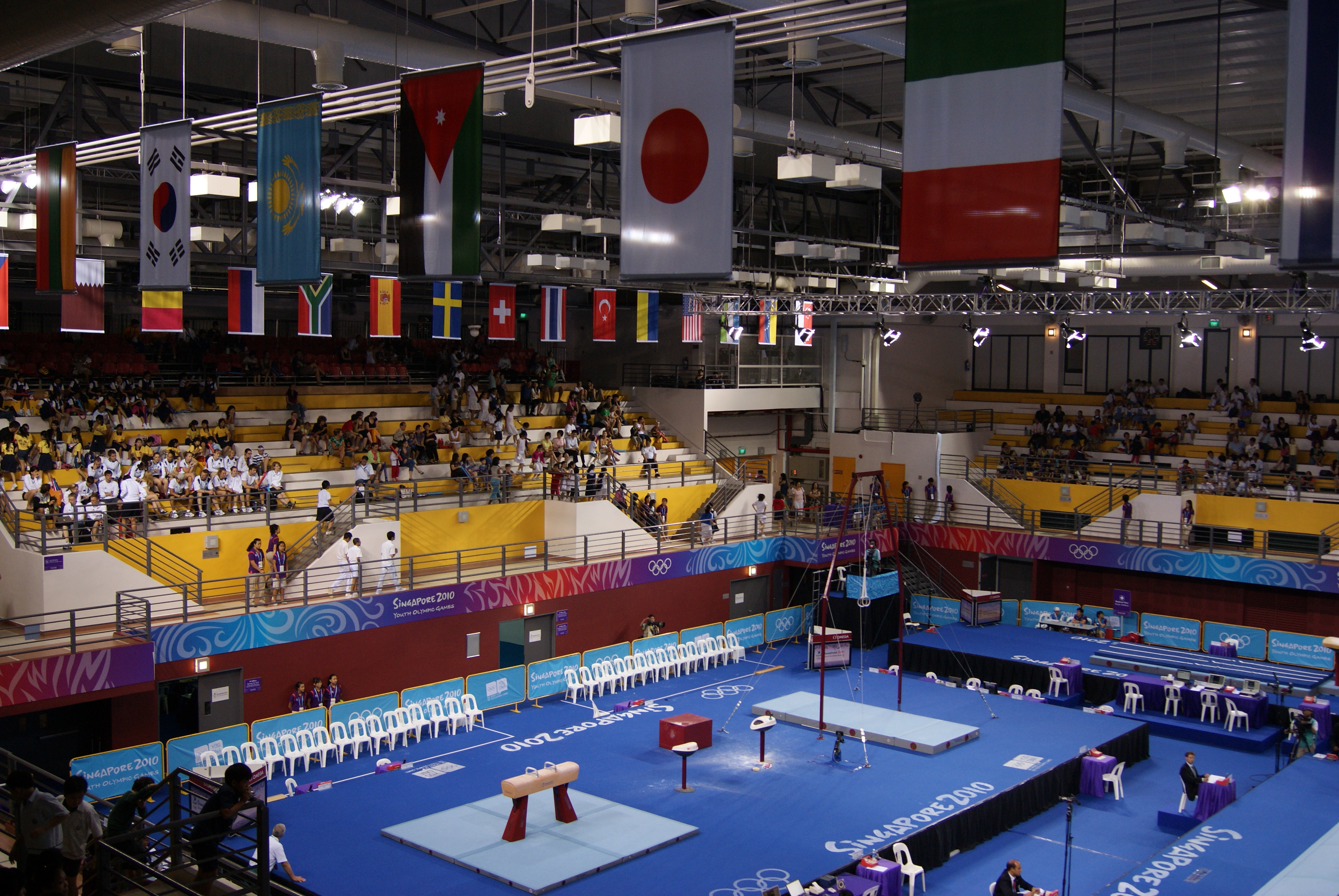 Bishan Sports Hall in Singapore during the Men's Qualification – Subdivision 1 event of the artistic gymnastics competition at the 2008 Summer Youth Olympics.